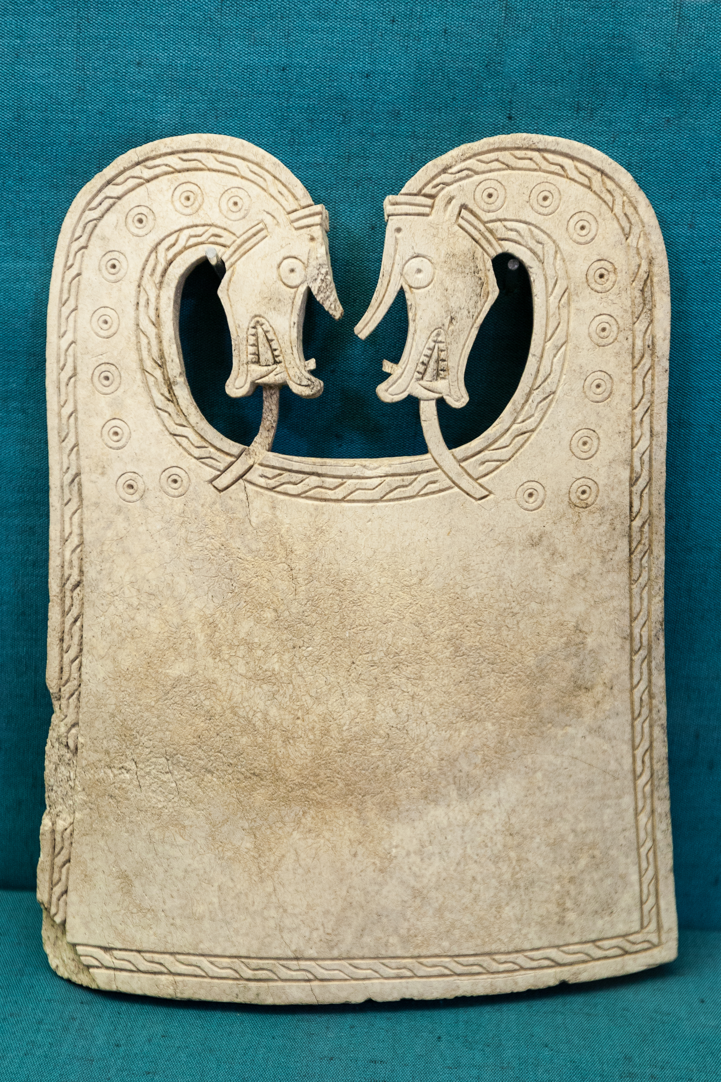 Whalebone plaque, probably used for linen-smoothing, found in 1991 at the Scar boat burial on Sanday, Orkney, Scotland. Photographed at Orkney Museum